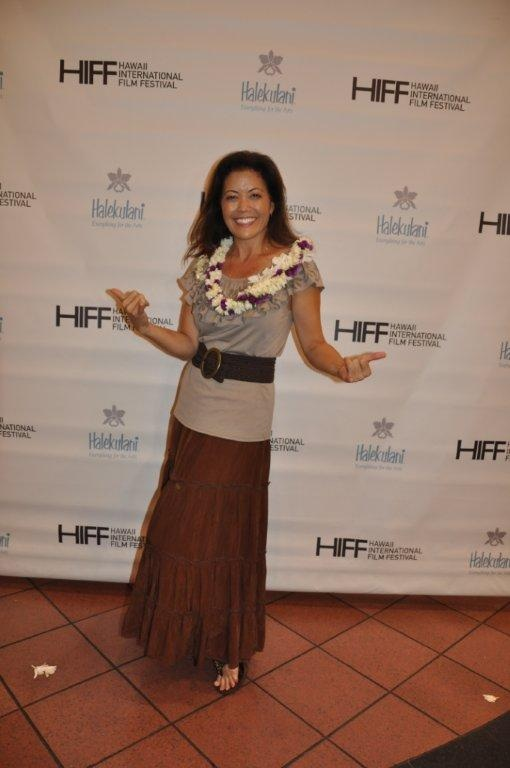 Ren Hanami at Hawaii International Film Festival taken after workshop on the business of acting.